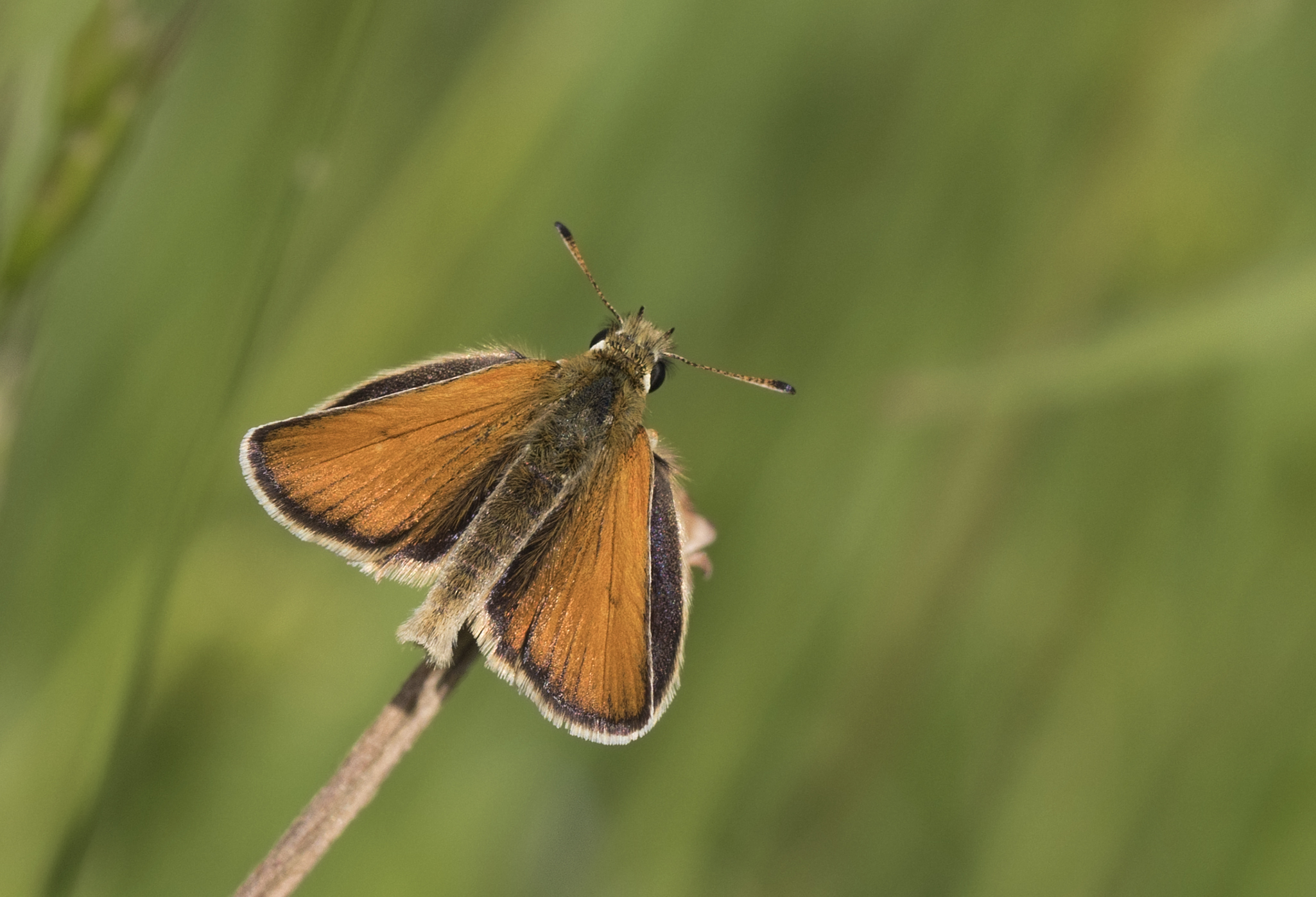 Wing upperside view of an Essex Skipper (Thymelicus lineolus) butterfly. Obrukbaşı, Saimbeyli - Adana,Turkey.